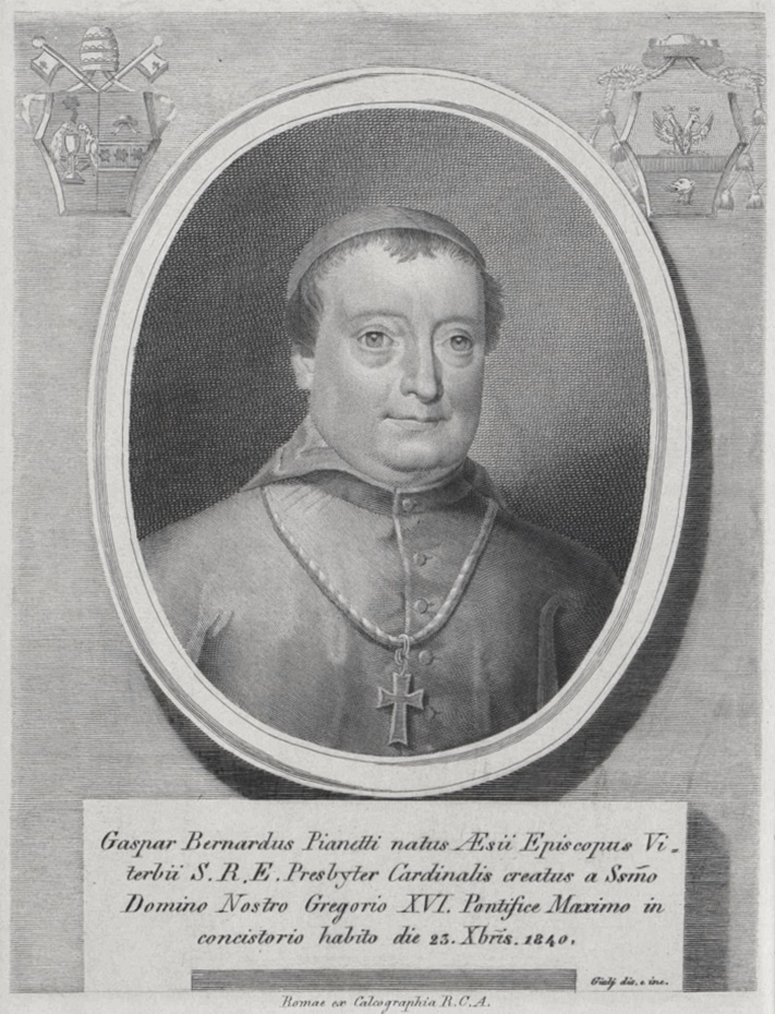 Kardinal Gaspare Bernardo Pianetti (1780-1862)